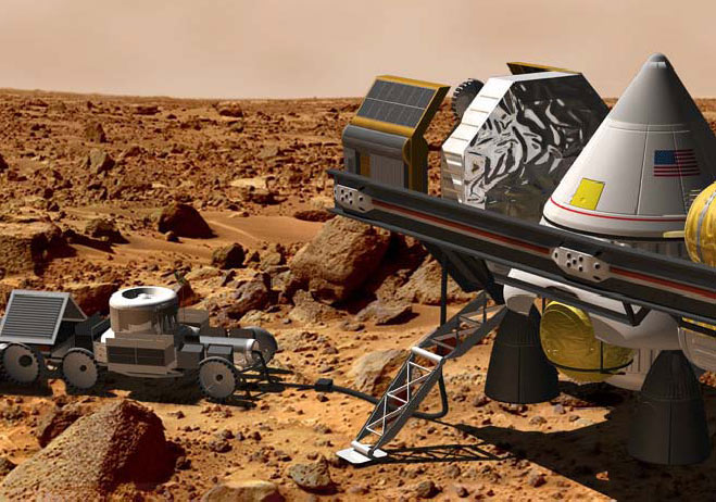 Manned mission to Mars : Ascent stage (NASA Human Exploration of Mars Design Reference Architecture 5.0) fev 2009